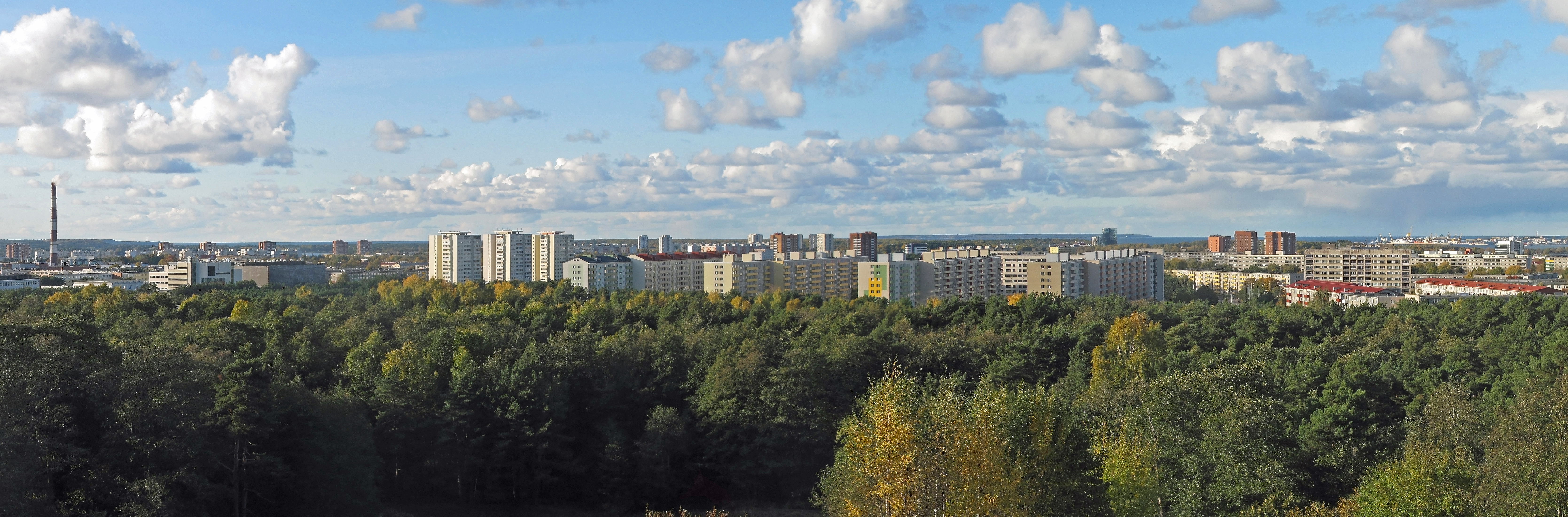 Mustamäe, a district of Tallinn, pictured from Nõmme.